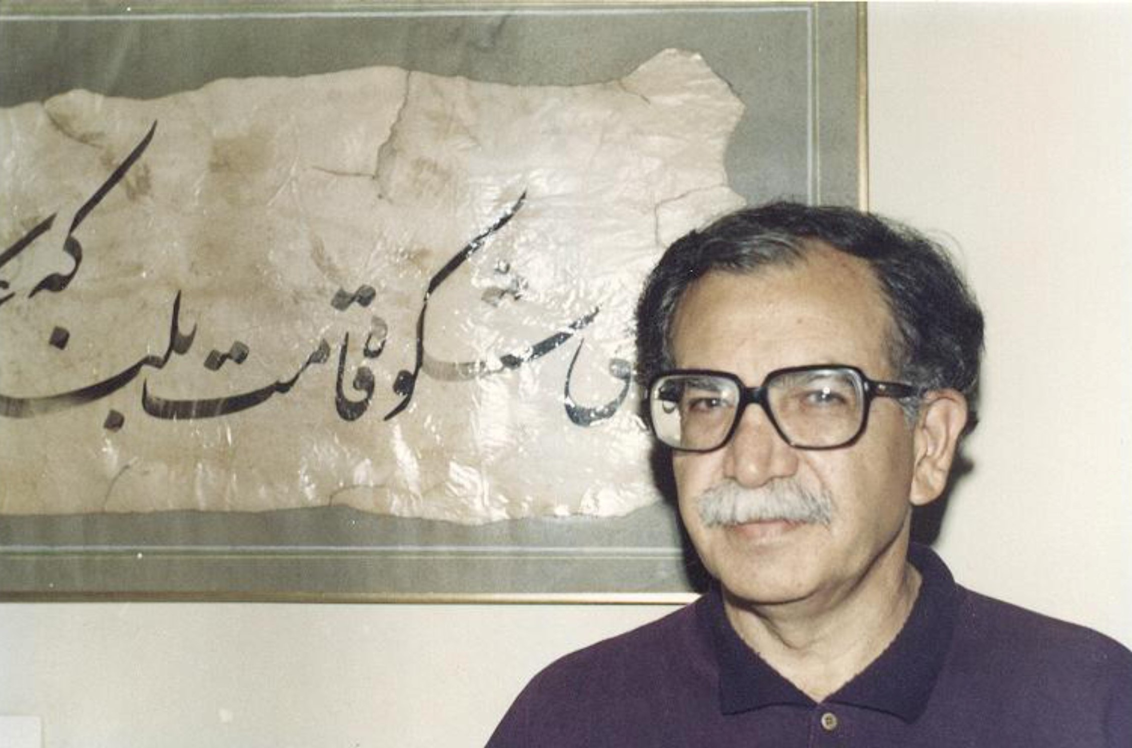 Ali-Ashraf Darwishiyan, kurdish writer from Kermashan, Iranian Kurdistan. He's known by his realitic short stories and novels which narrate the lifeand struggle of worker class and poor people of Iran and specially Iranian Kurdistan.